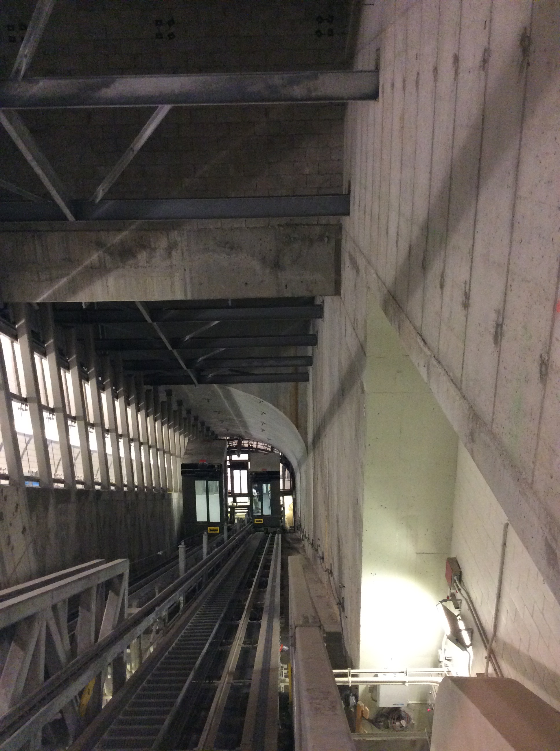 The 34th Street-Hudson Yards subway station, September 16, 2015